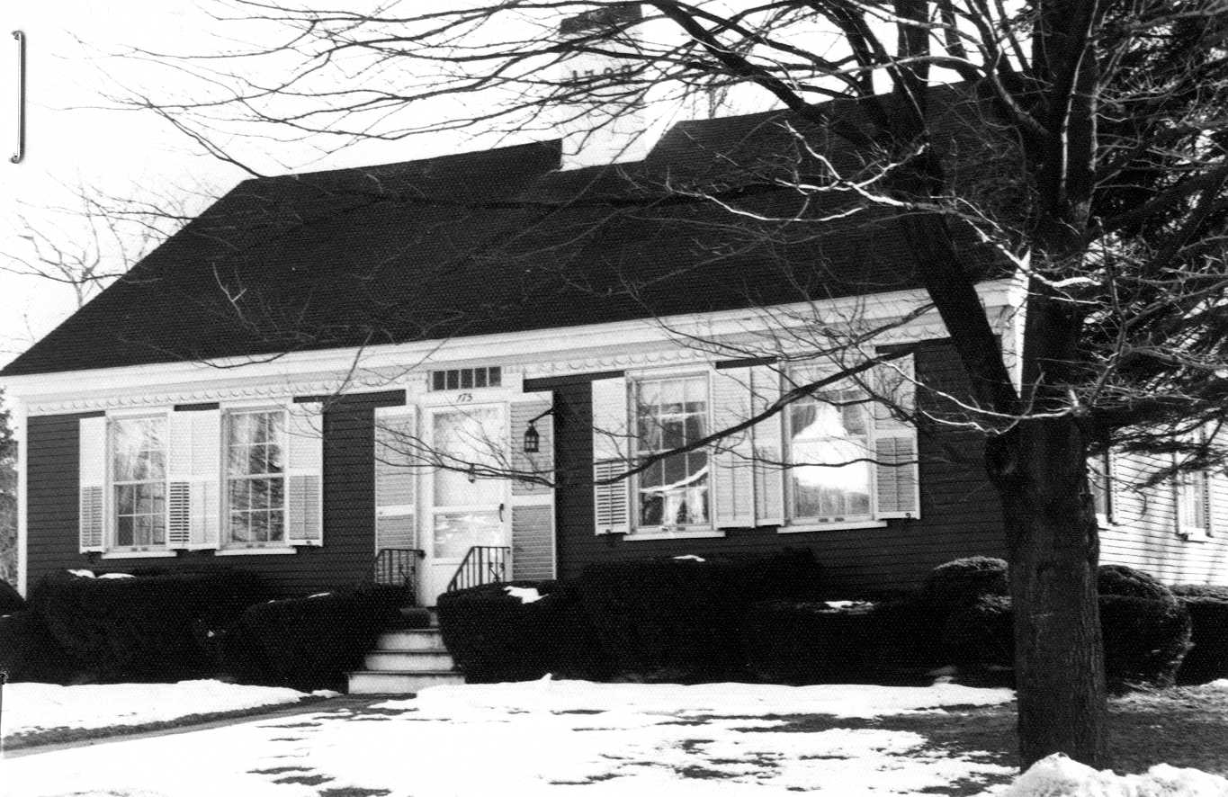 Jonathan Dean House, Taunton, Massachusetts. House as been demolished and site is occupied by a drugstore.